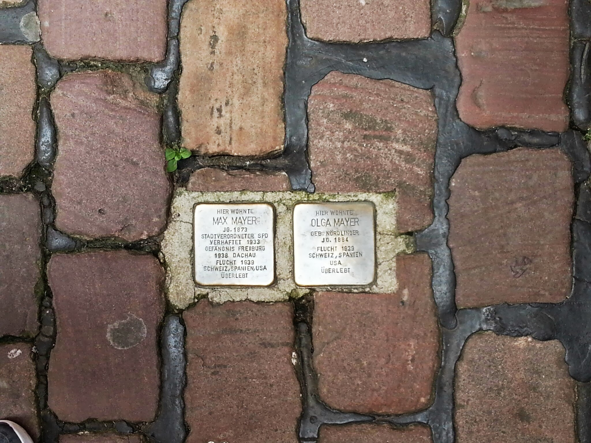 Two Stolpersteine outside of a building in Heidelberg, Germany for Max and Olga Mayer. They both escaped Germany in 1939 via Switzerland and Spain to the USA and survived the Holocaust.